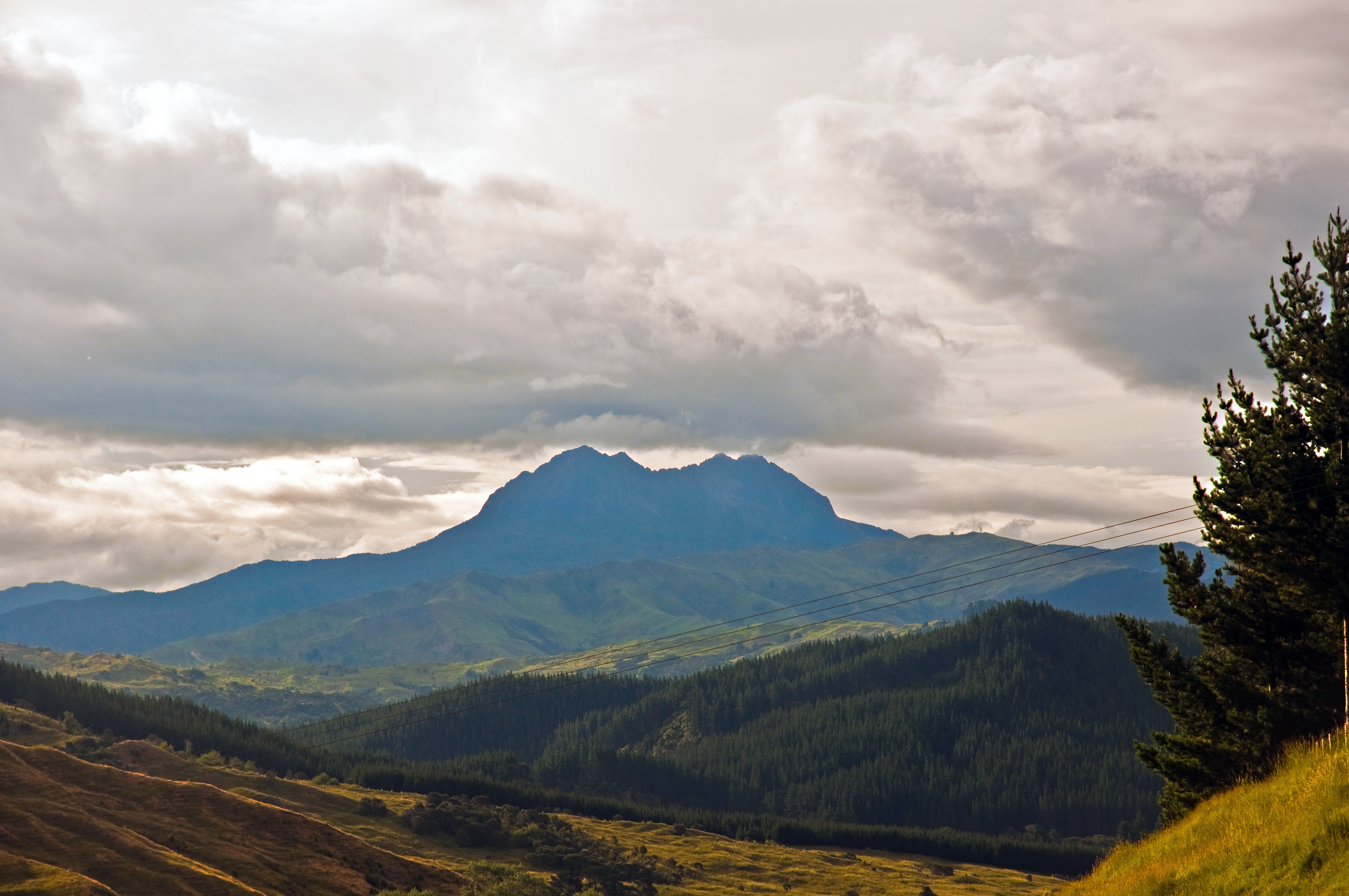 Hikurangi, East Coast, New Zealand, 14th. Dec. 2010